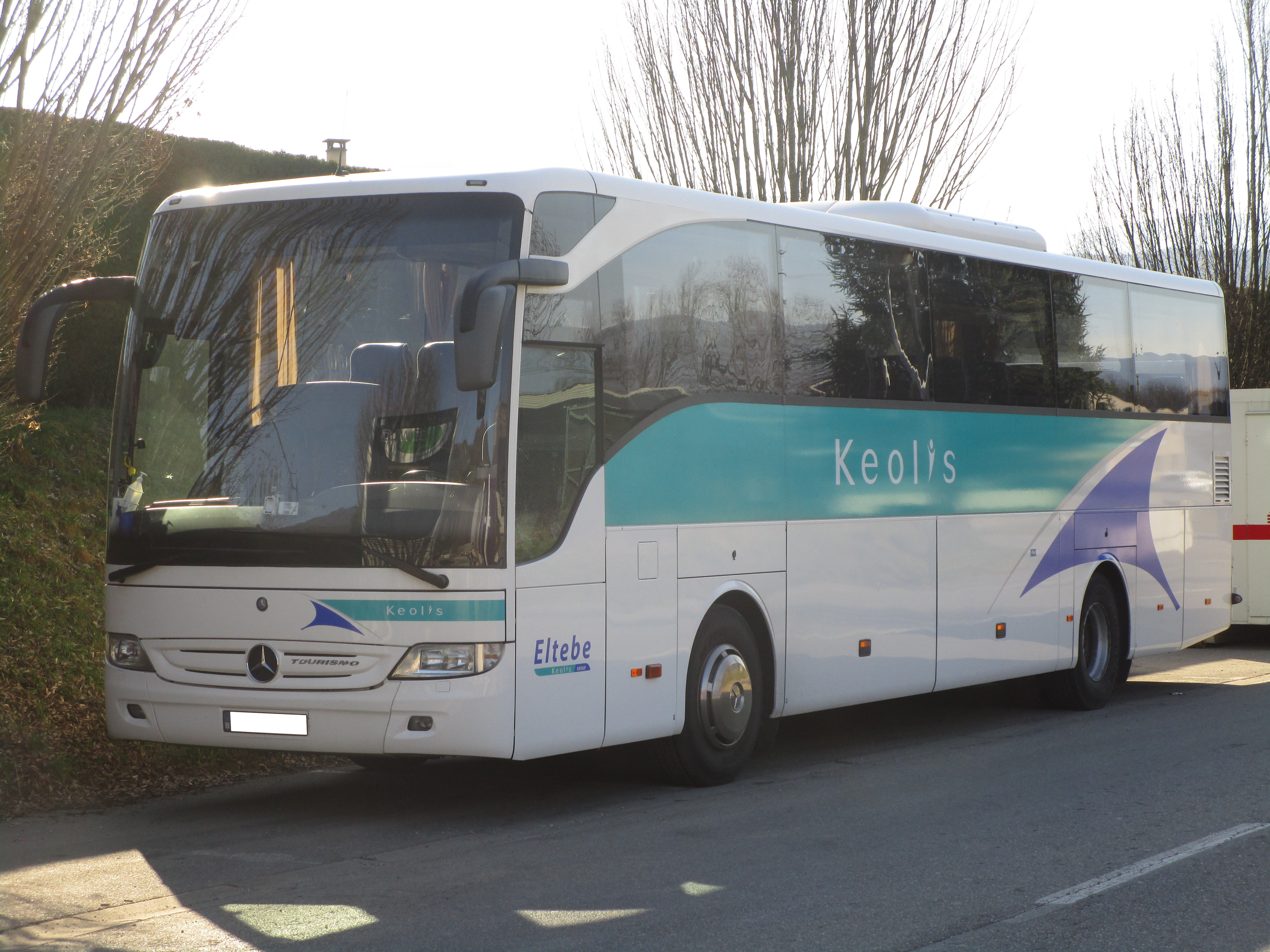 A Mercedes-Benz Tourismo (Keolis Eltebe) in the Avenue de la Breisse (Challes-les-Eaux, France) on February 27, 2017.